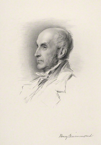 Portrait of Henry Drummond, English banker, politician and lay religious leader.